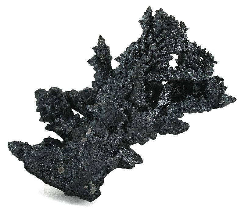 Acanthite Locality: Imiter Mine, Boumalne-Dadès, Ouarzazate Province, Souss-Massa-Draâ Region, Morocco (Locality at ) Size: 8.3 x 5.2 x 3.4 cm. This specimen is a complete floater with no visible point of attachment. The acanthite after argentite crystals are octahedral in form, elegantly elongated to over 3 cm in length. They have splendent luster and a dark jet black color, with individual crystals reaching 3 cm in length. Most of the crystals have grown on top of each other and the overall appearance is that of a city of Chinese pagodas or even South African hausmannite specimens.